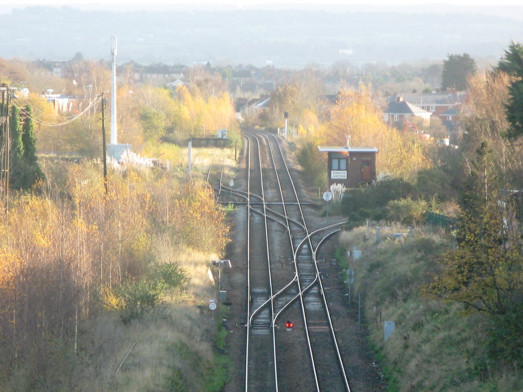 Looking east to Exmouth Junction in Exexeter, Devon, England. The main line straight ahead is the West of England Line from London Waterloo; the branch to the right is the Avocet Line to Exmouth. A large engine shed used to stand to the left of the junction.